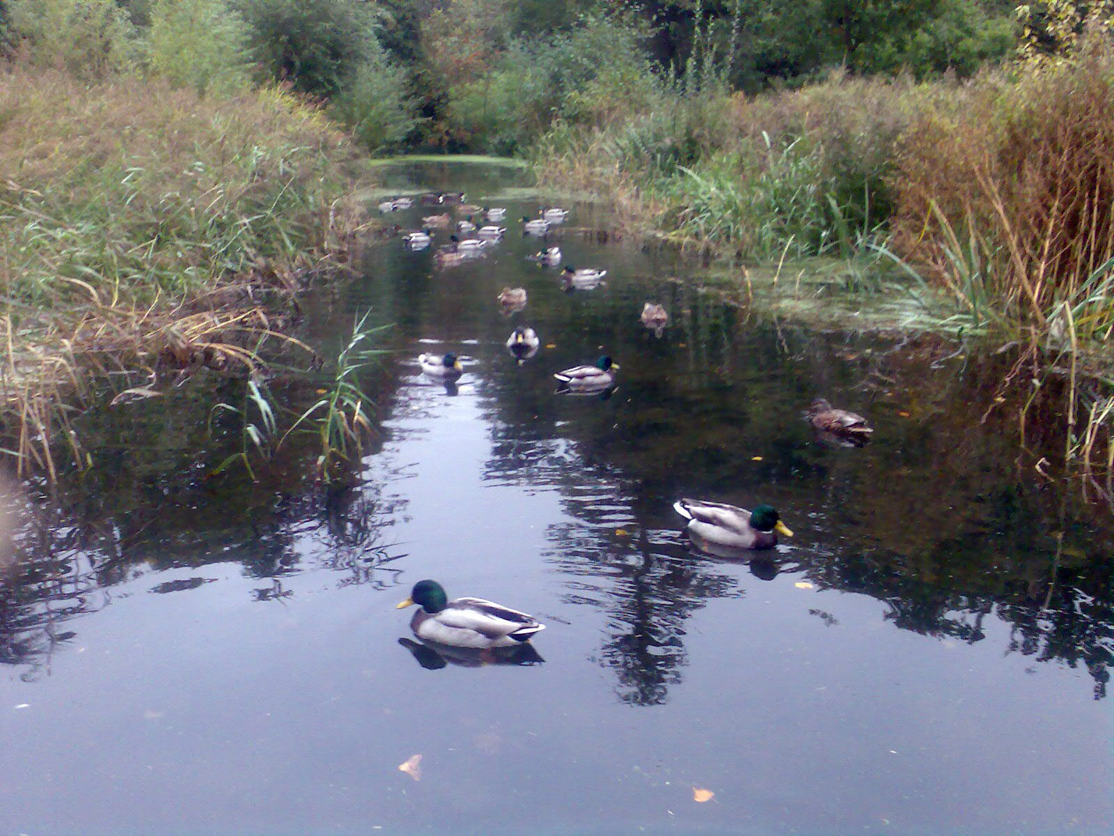 Ducks on Pond 5 in Holywells Park